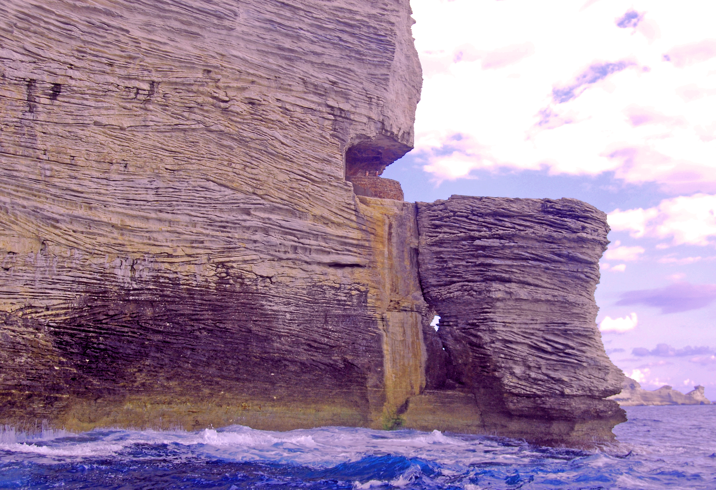 The Gouvernail de la corse near Bonifacio, a headland at the southwestrn tip of the Ile de Fazzio, a peninsula at the southern coast of Corsica. The rocks in the cliff consist of Early Miocene (Langhian) tide-influenced calcarenites and calcareous litharenites and are lithostratigraphically assigned to the Bonifacio Formation. They clearly show different kinds of crossbedding.